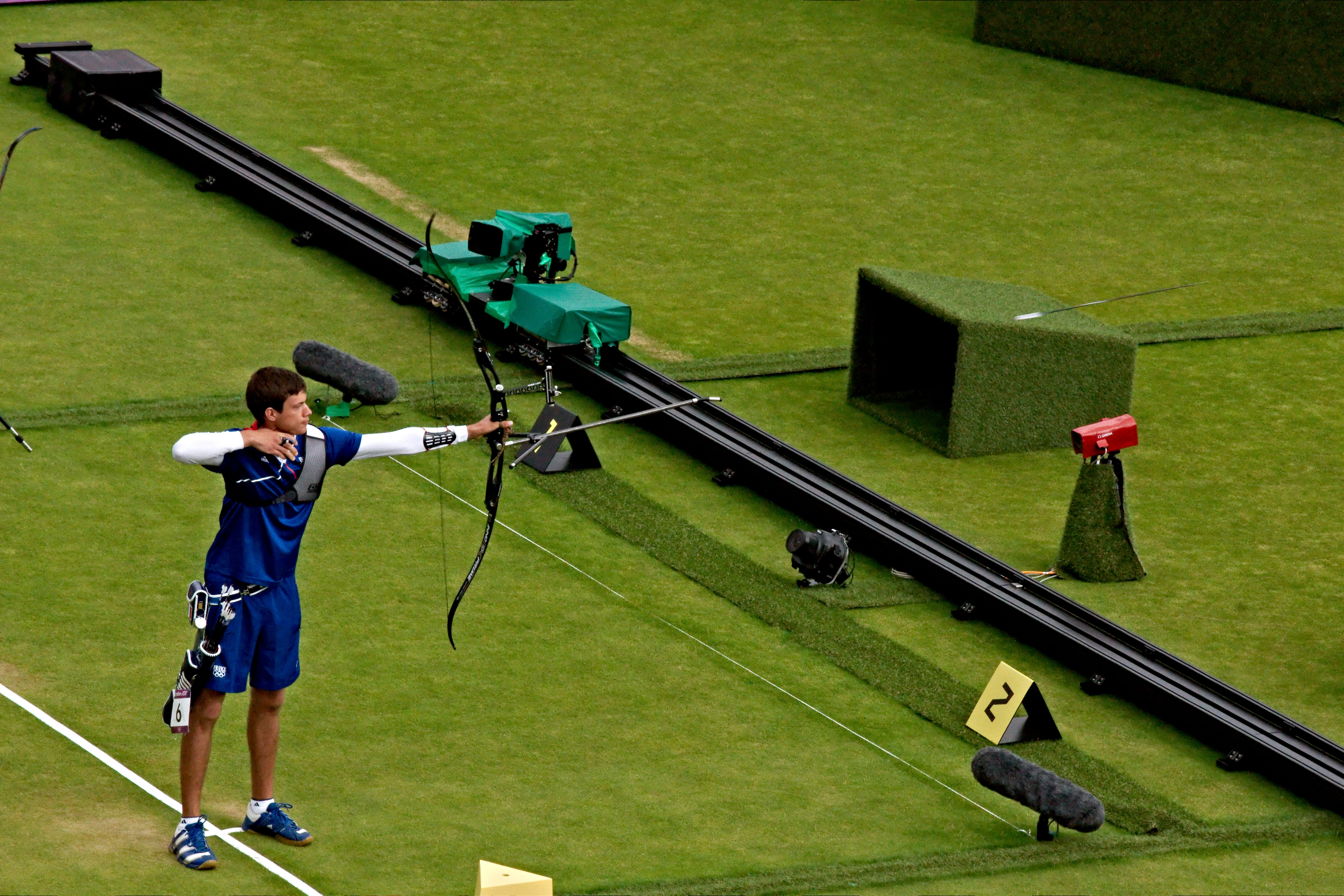 Shooting in the last 16, with arrow in flight